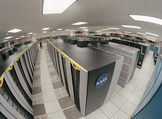 Columbia, the new (2004) supercomputer, built of 20 SGI Altix clusters, a total of 10240 CPU. Original caption: "Birds-eye view of the 10,240-processor SGI Altix supercomputer housed at the NASA Advanced Supercomputing facility."